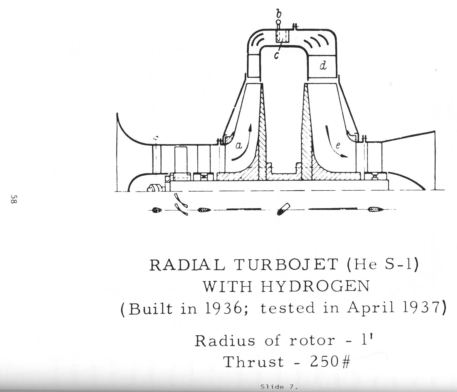 Heinkel He S-1